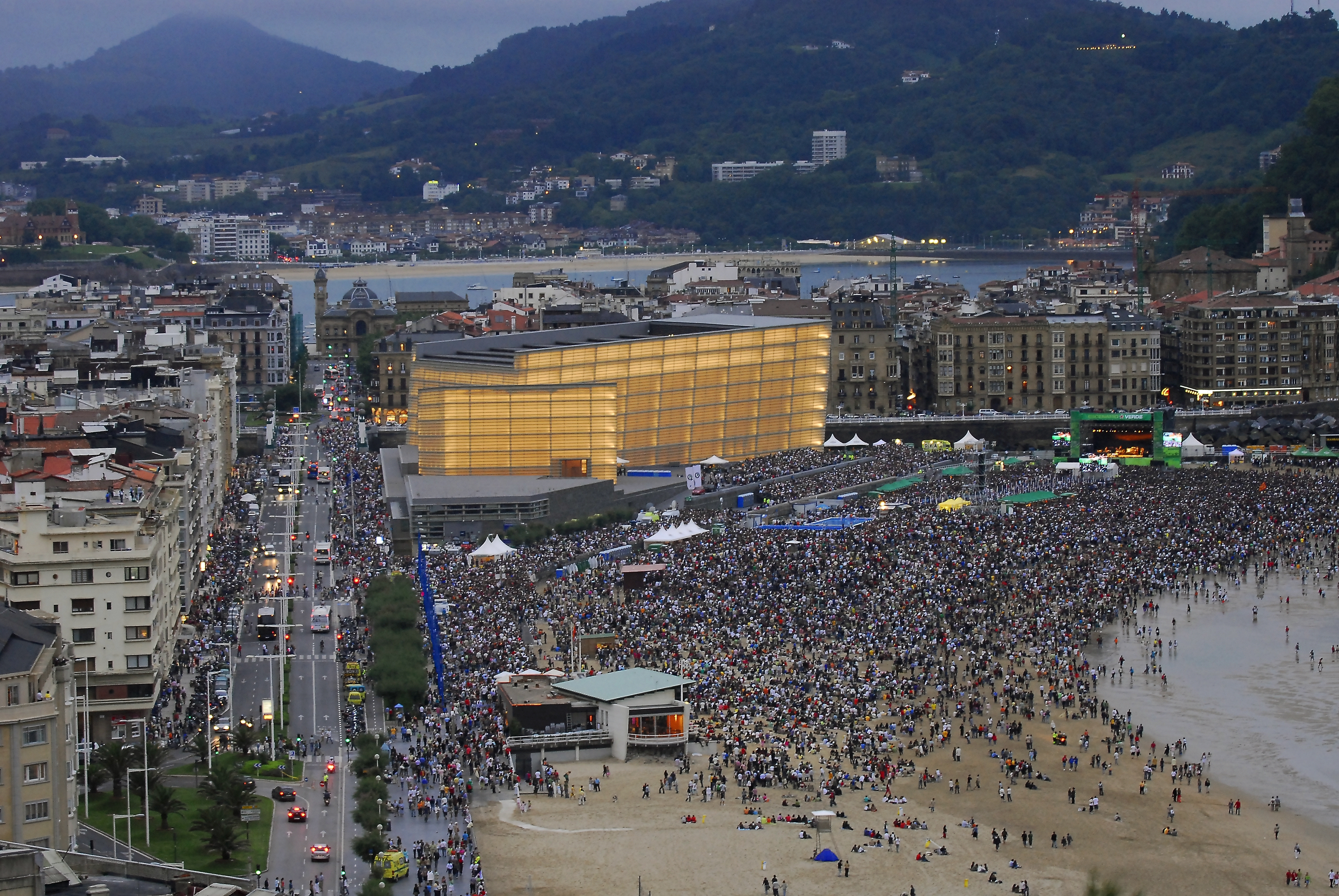 The Green Stage at Zurriola Beach.